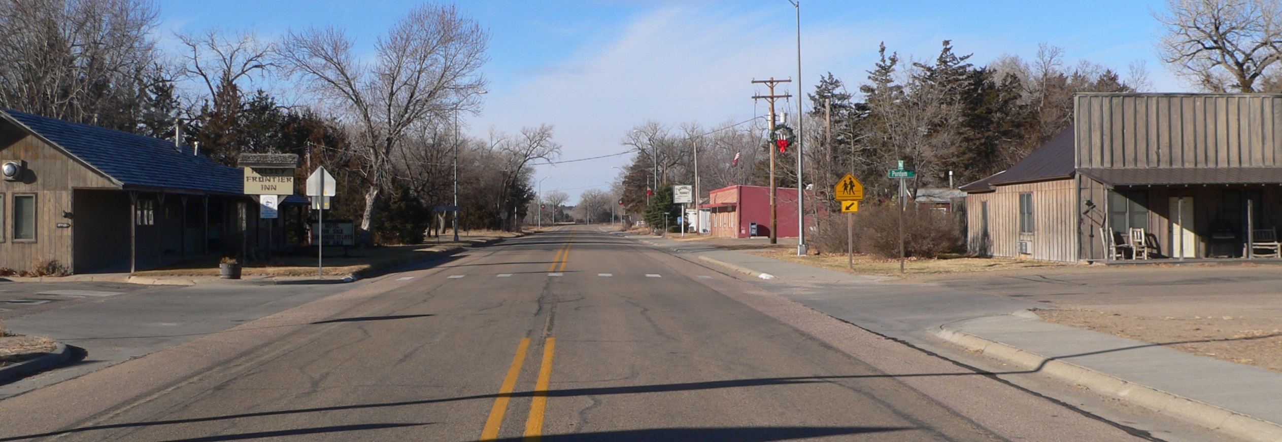 Halsey, Nebraska: Nebraska Highway 2, looking west from about Purdum Avenue.